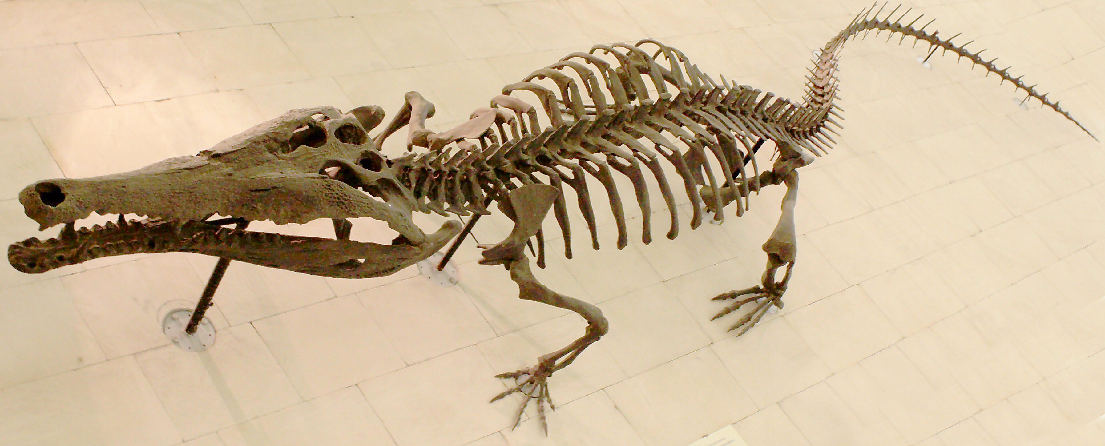 Restoration of the holotype skeleton MOUF00001 of Toyotamaphimeia machikanense KOBATAKE et al. 1965 (missing parts reconstructed), an extinct tomistomine crocodile from the Middle Pleistocene (370,000 years ago) of the Upper Osaka Group, Osaka Prefecture, Central Japan.[1] Museum floor display, Moscow Paleontological Museum. The length of the skull alone is about 1 m. The original fossil material is housed in the Museum of Osaka University.